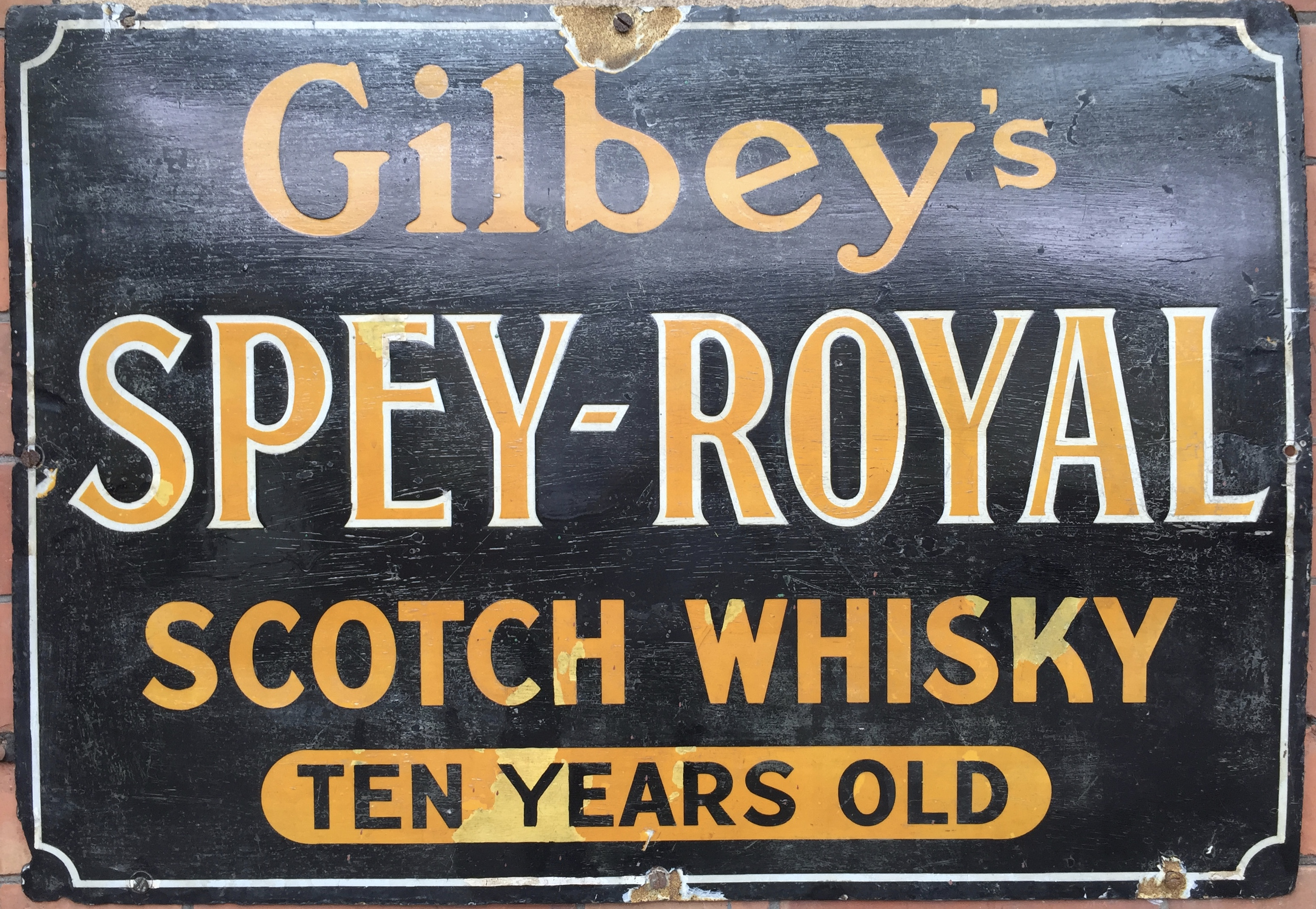 An enamel sign on the Great Central Railway, Loughborough